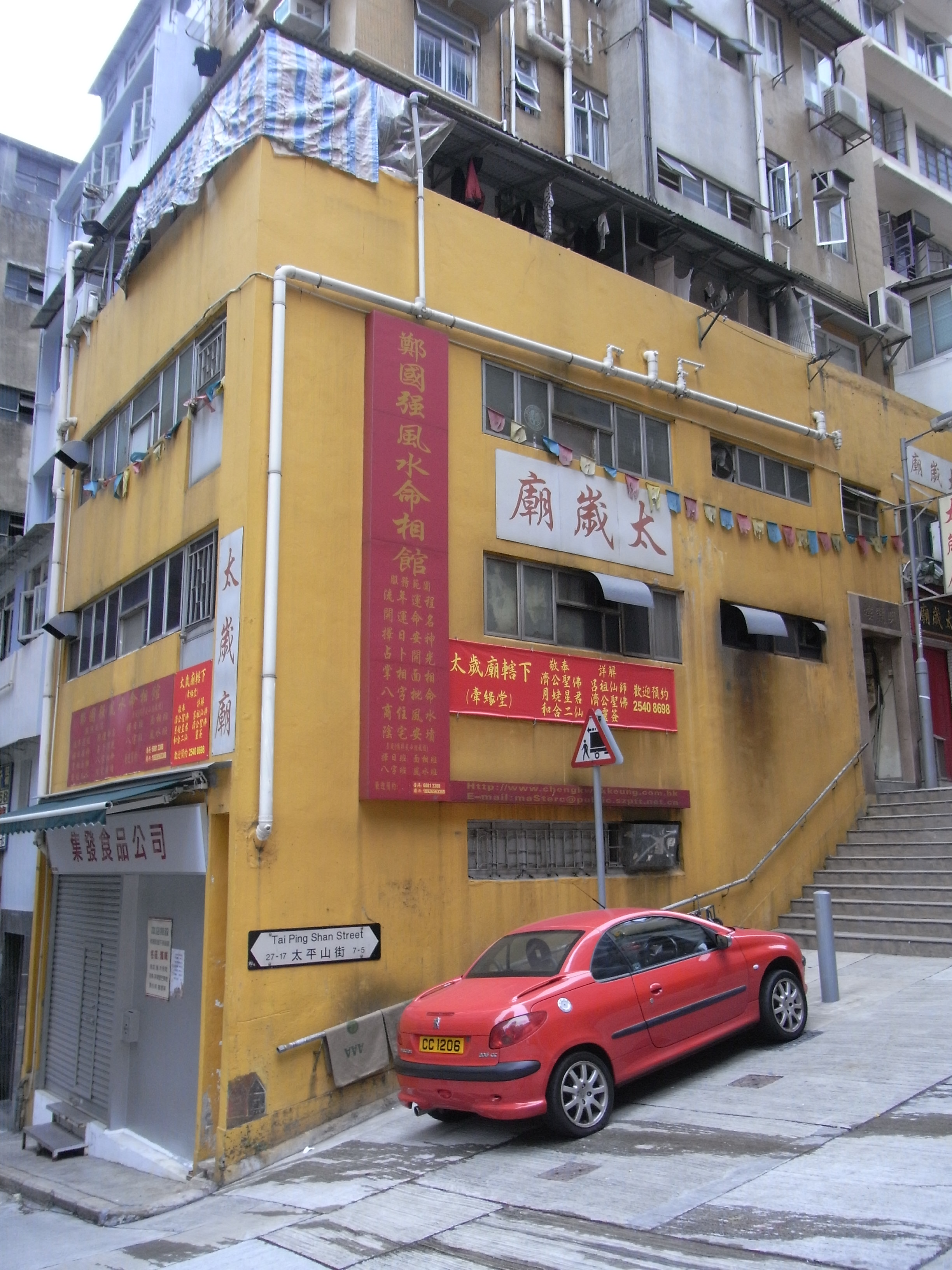 上環太平山街 明發樓